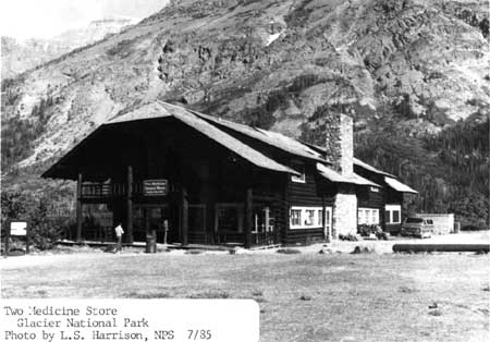 Two Medicine Store in Glacier National Park (United States)